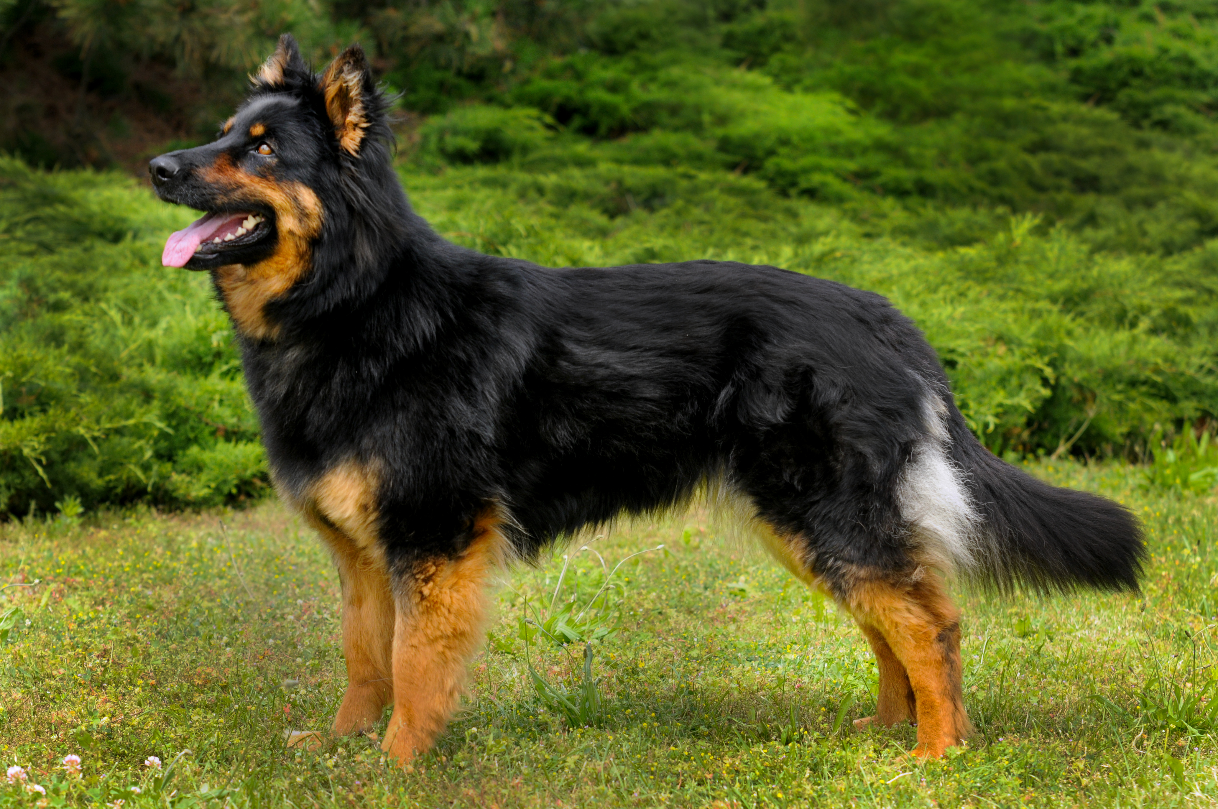 Chodský pes - autor Katka Kollárová